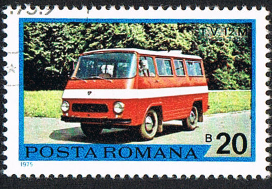 Romanian stamp from 1975 with bus TV 12M Michel stamp catalogue (East-Europe part 4) number: 3303